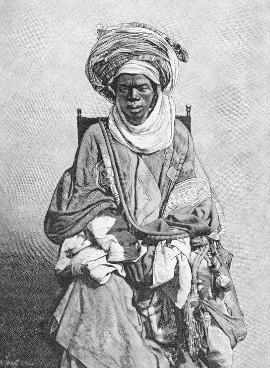 A Mohammedan Yoruba trader (1890-1893)